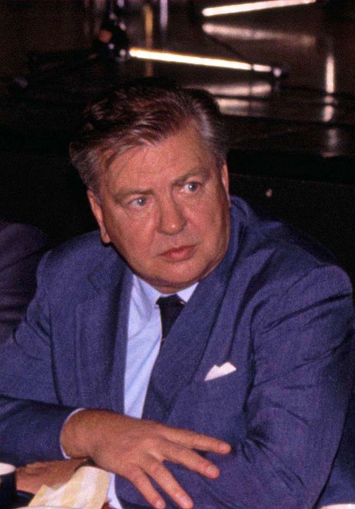 Veikko Santero, city manager of Salo years 1964–1986